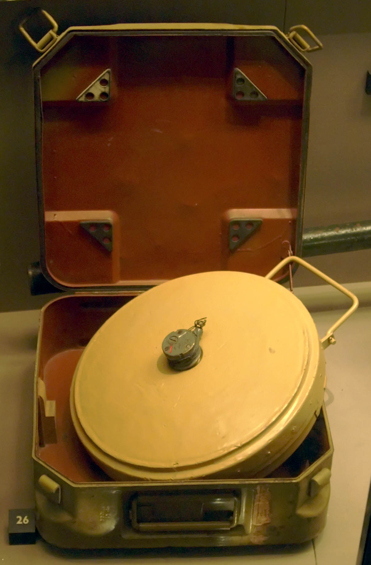 A German Second World War Tellermine 35 anti-tank Landmine and carry case at the Imperial War Museum, London. It is painted yellow, indicating that is a pre-war mine.